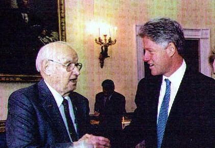 Victor and Sophie Reuther, The President and Mrs. Clinton, The White House, 1995